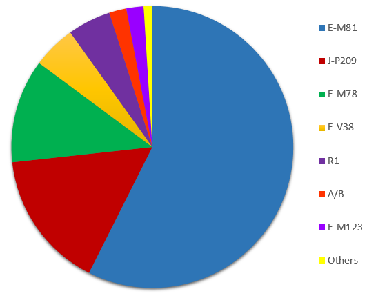 Moroccan Y-DNA Haplogroups